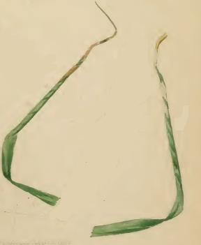 Stainton’s Natural History of the Tineina (1855–1873): Helcystogramma rufescens grass leaf blades rolled up and discoloured by larva